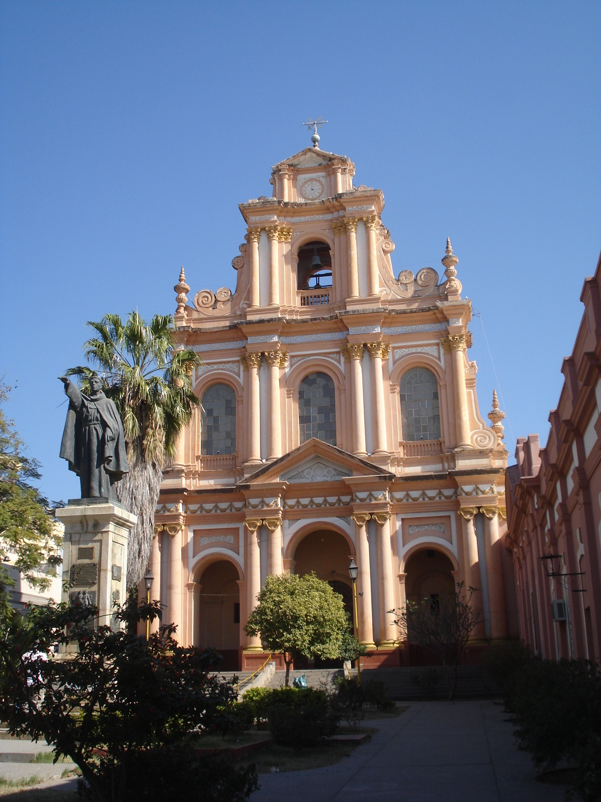 San Francisco's Church and Fray Mamerto Esquiu's monument in San Fernando del Valle de Catamarca, Argentina.